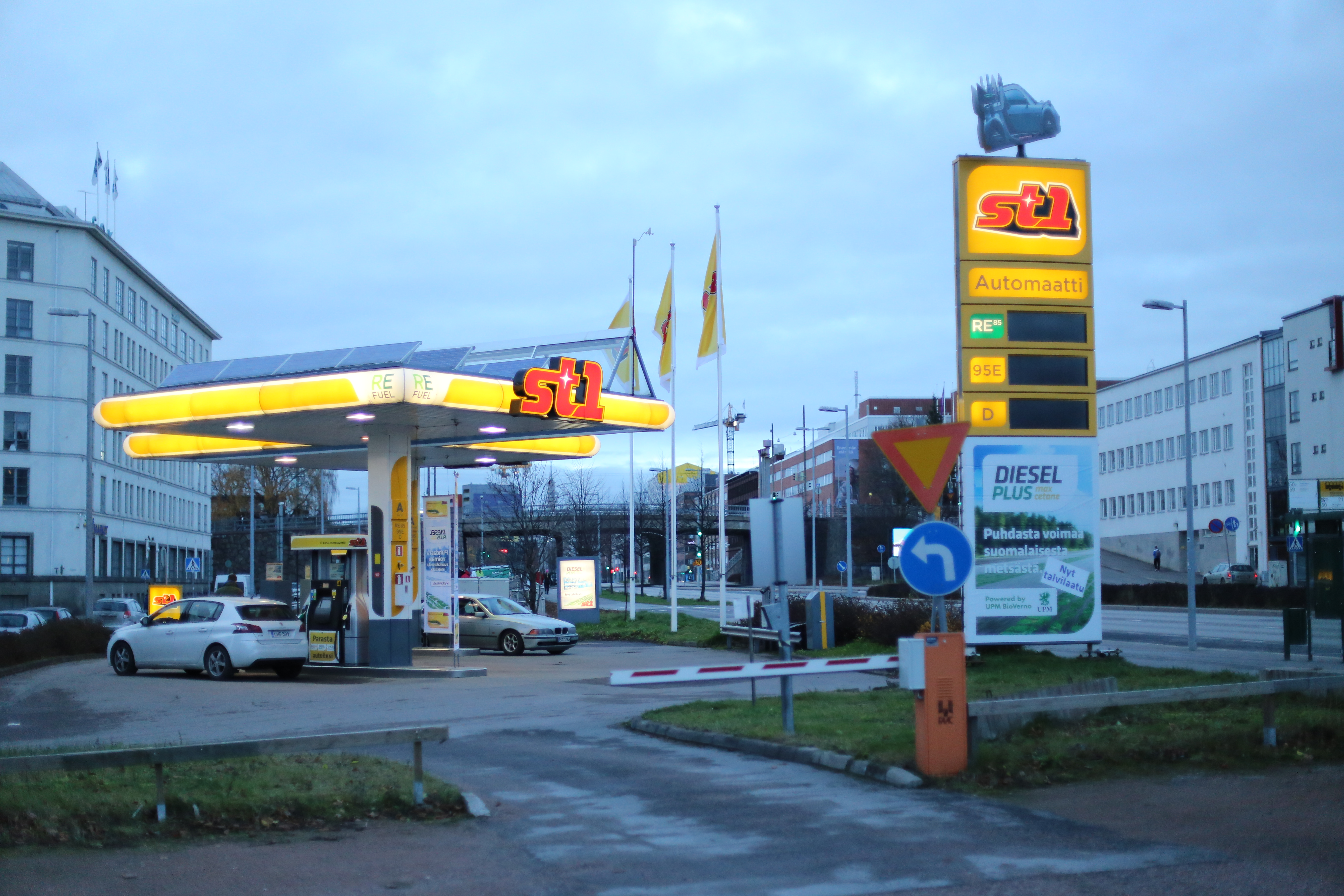 Here is picture form east side of St1 Gas Station in Vallila City of Helsinki, Finland.